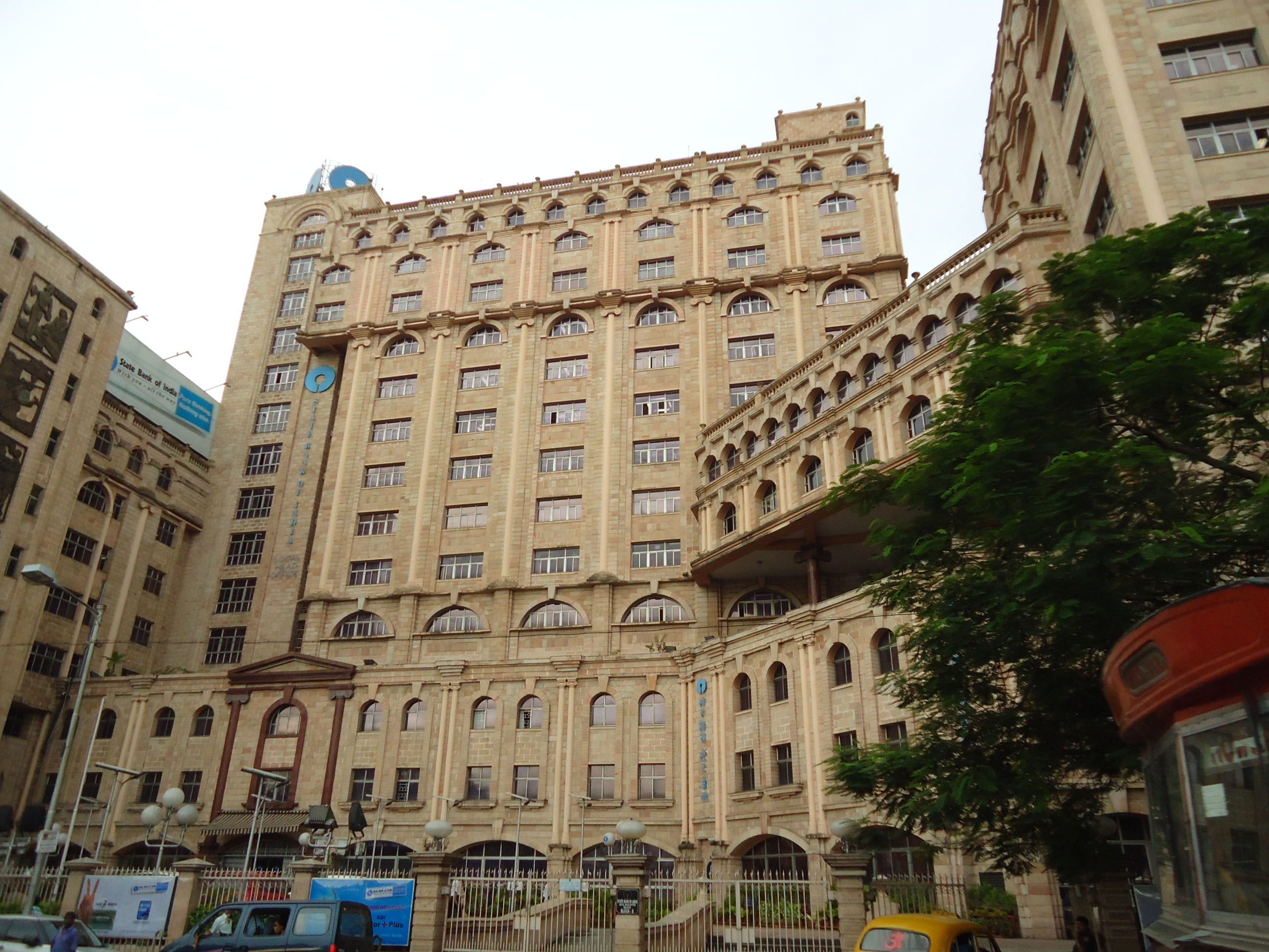 SBI HO in Kolkata